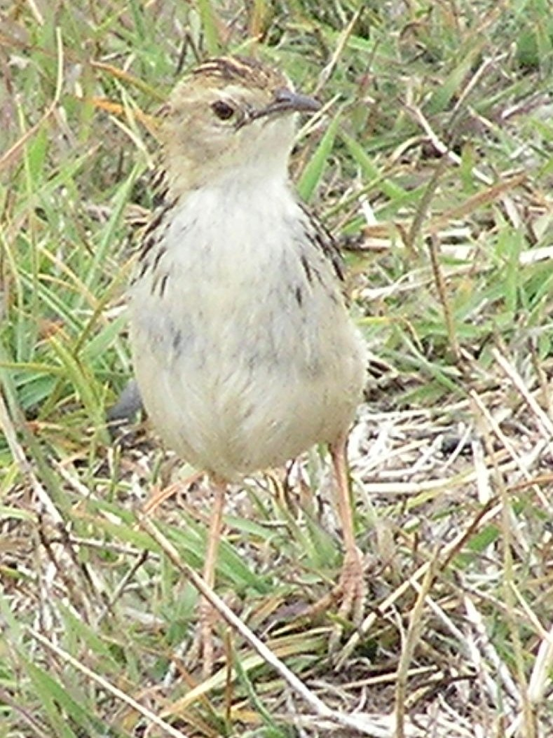 Pectoral Patch Cisticola in Debre Berhan, Ethiopia. It is to be seen all year ground in damp surroundings at altitude of 2800 metres.